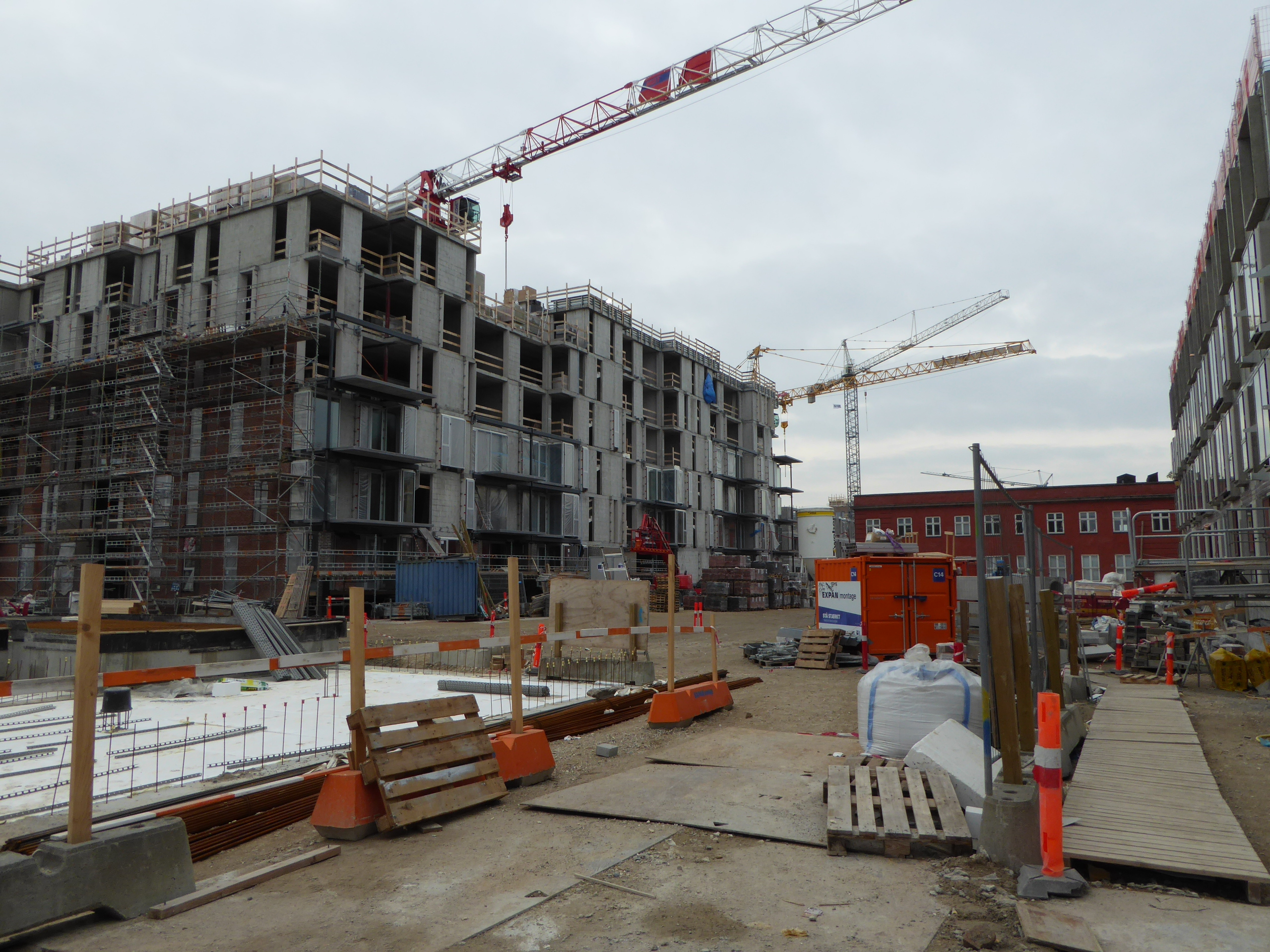 The street Antwerpengade in Nordhavn in Copenhagen.